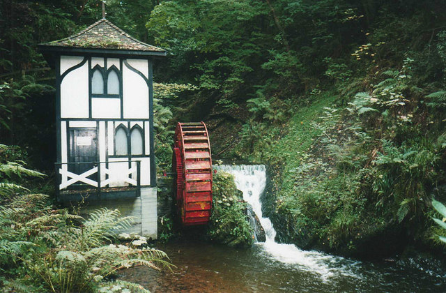 Groudle Glen waterwheel This waterwheel and wheelhouse were first operated in about 1895. The wheel has been used to pump water to the Groudle Hotel and to provide power for the fairy lights that ran through the glen from the entrance to Lhen Coan. The wheel was known as the 'Little Isabella', (a reference to the Laxey Wheel). The wheel featured in a disguised form in the BBC series 'Lovejoy' in 1986 with a story which led to buried treasure being discovered in one of the paddles. In 1994 the wheel was refurbished by Laxey Towing Company and since that time it has operated sporadically in conjunction with train services.